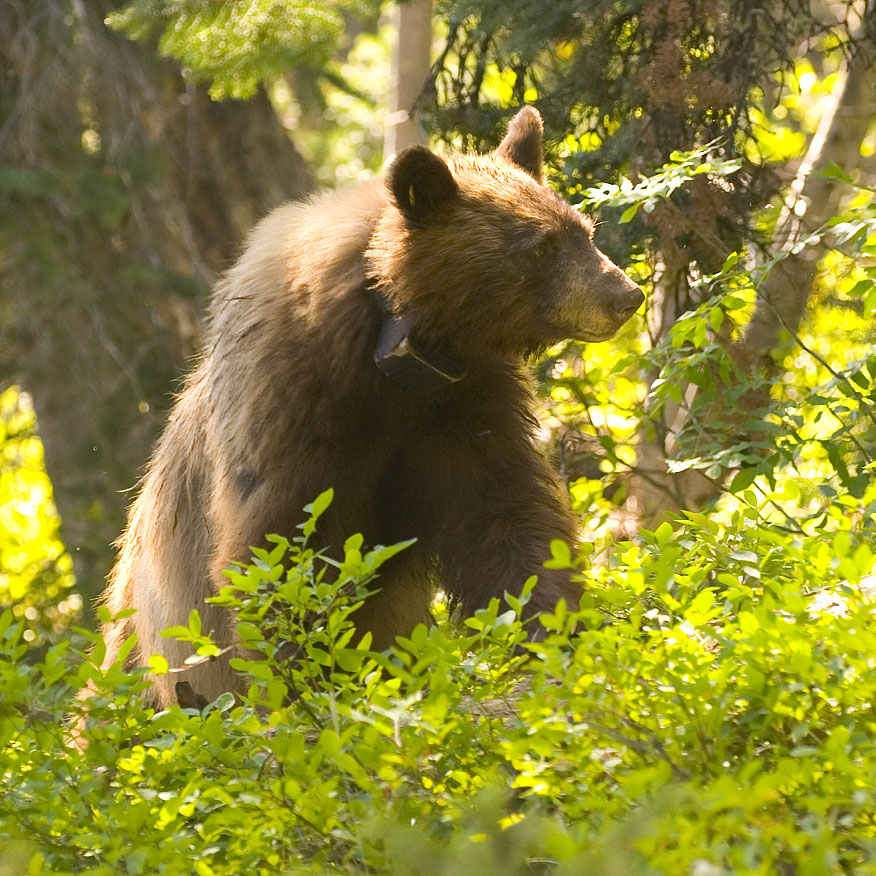 This poor old black bear had a radio collar, and tags in both ears!! Poor guy!